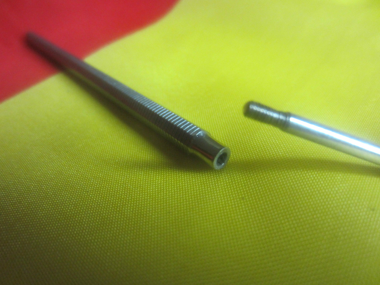 Mouth Mirror handle (European Norm) Flat end of the mirror handle is designed for the European Norm that do not match with US norm.